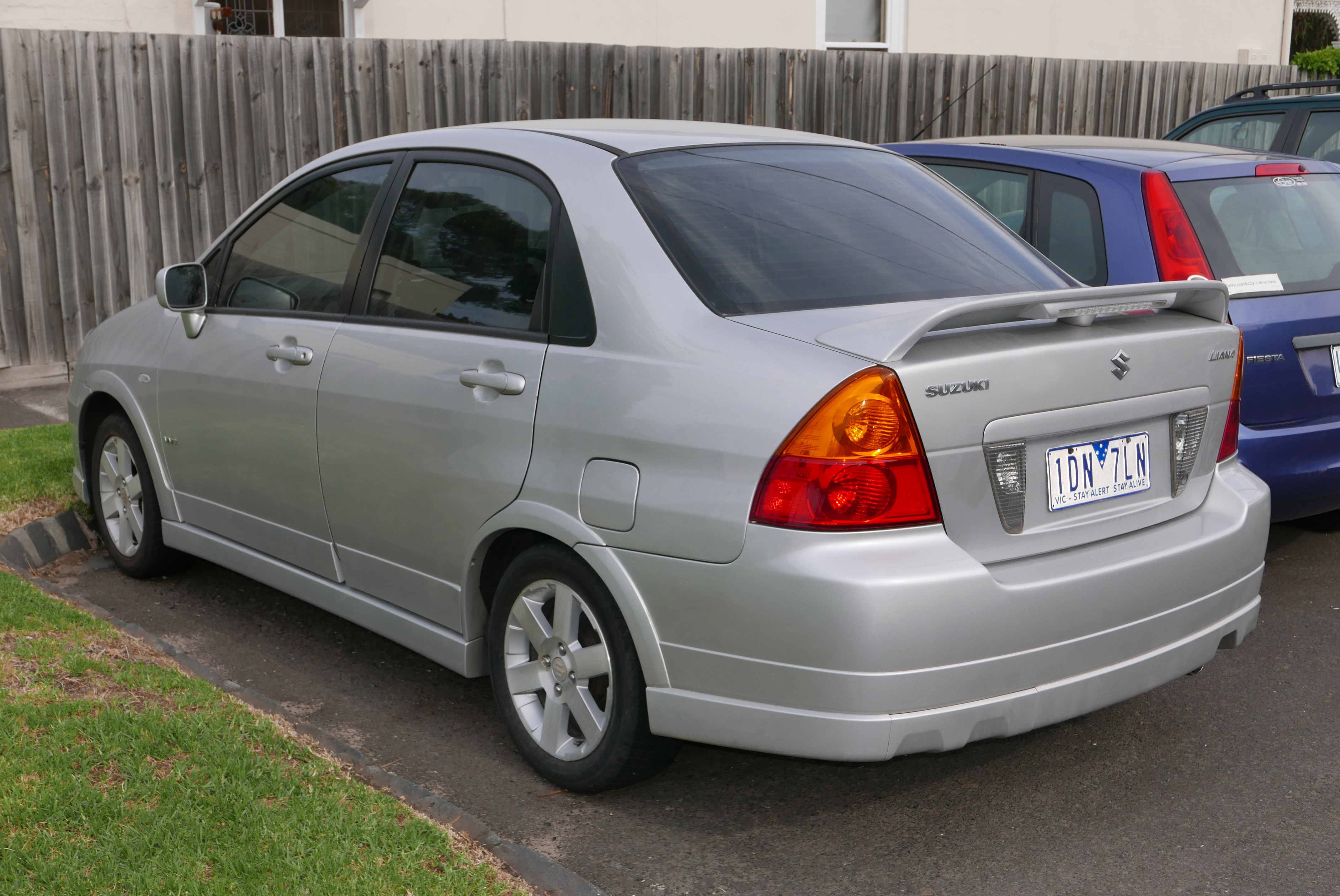 2004–2007 Suzuki Liana (RH418 Type 5) sedan. Photographed in Ascot Vale, Victoria, Australia.